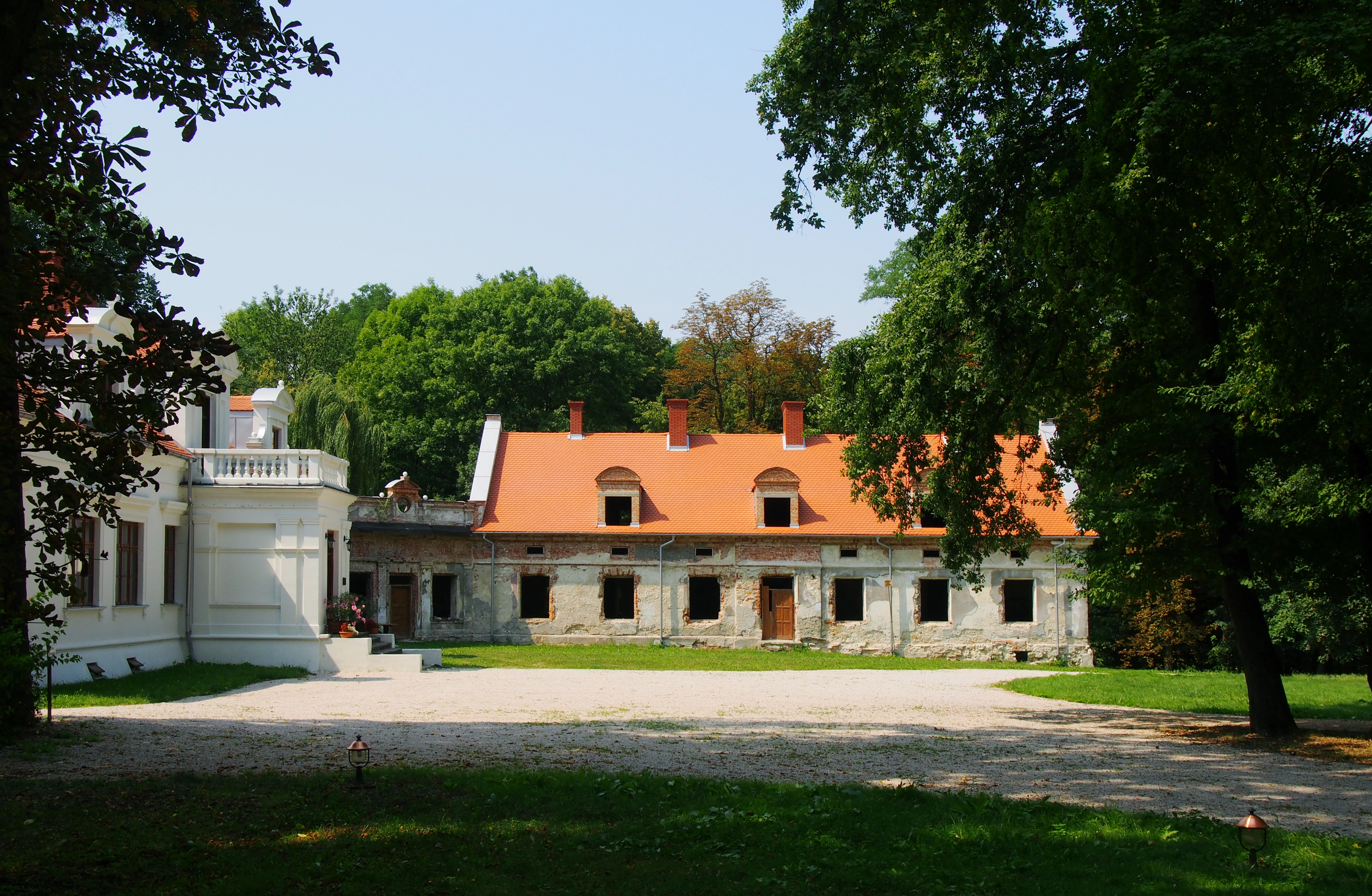 Manor house in Sichów Duży, powiat staszowski, Świętokrzyskie Voivodeship, Poland.